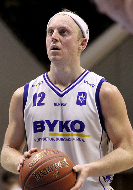 Justin Shouse with Stjarnan men's basketball team in february 2015.